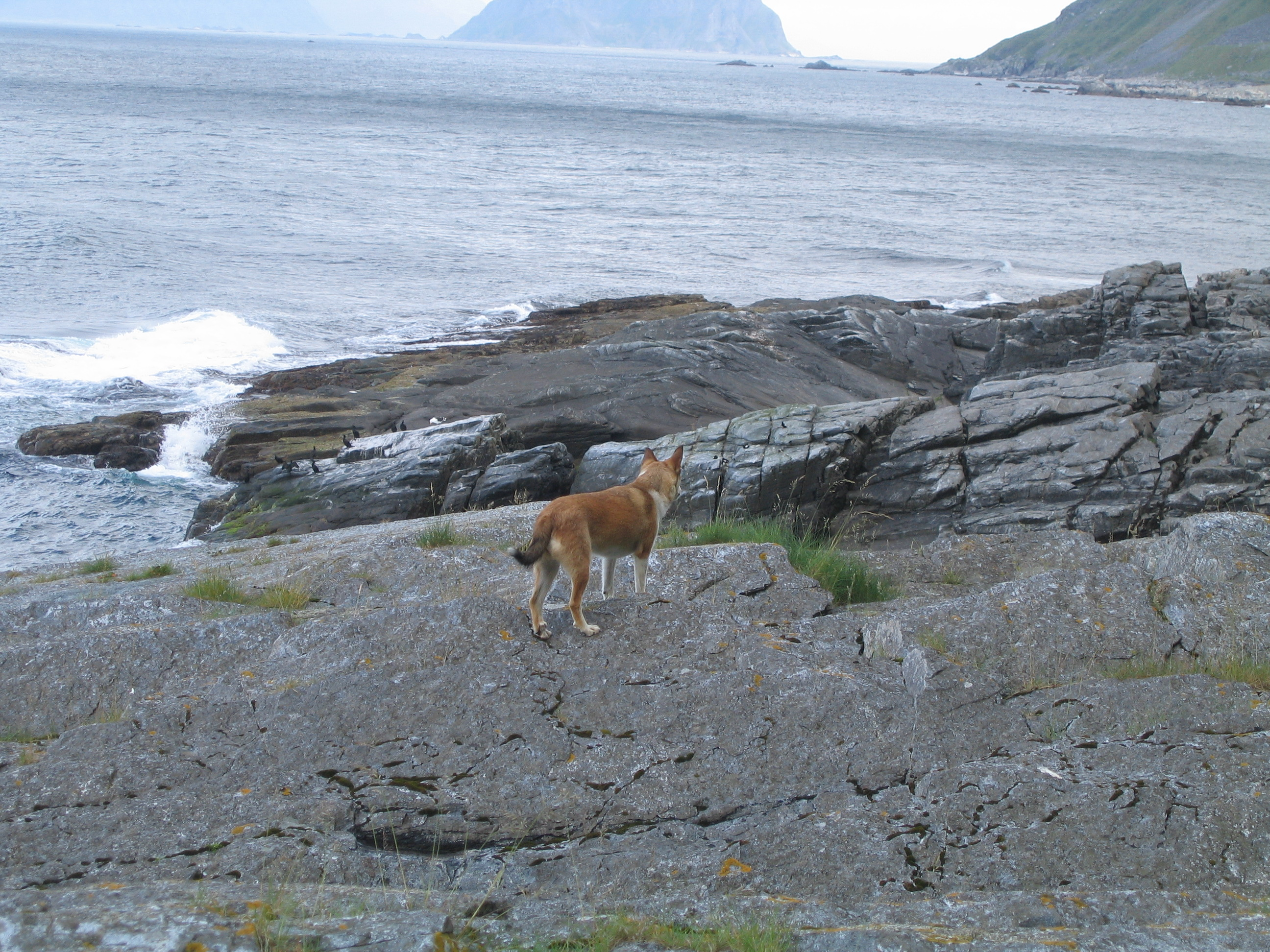 The Norwegian Lundehund "Gyda" looking out at the ocean on the north side of the island Værøy in Northern Norway. The island on the top, in the middle, is "Mosken", the island in the top left is "Moskenes". See also Image:Værøy-2005-07-11.jpg